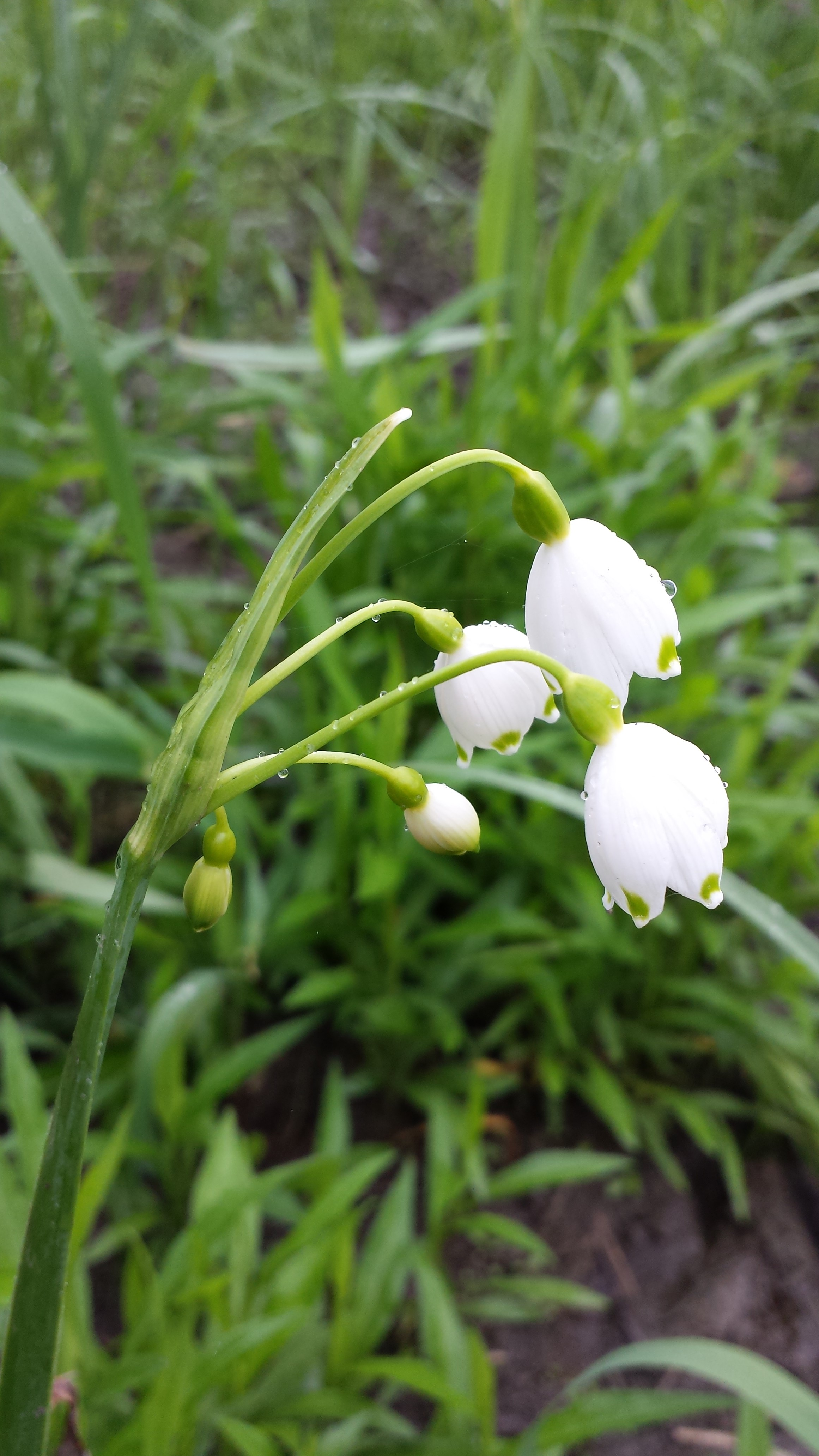 Flowers Taxon: Leucojum aestivum (sensu Fischer et al. EfÖLS 2008 ISBN 978-3-85474-187-9; det. M. A. Fischer 2013-05-11) Location: March floodplains near Hohenau an der March, district Gänserndorf, Lower Austria - ca. 150 m a.s.l. Habitat: riparian forest